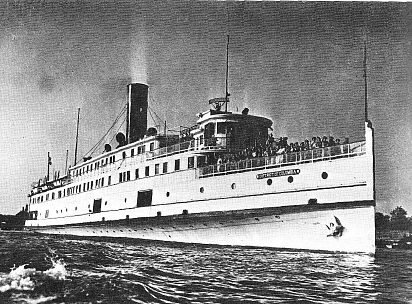 The Baltimore Steam Packet Company's District of Columbia steamboat in a 1949 publicity photo